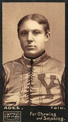 Photograph of George Adee